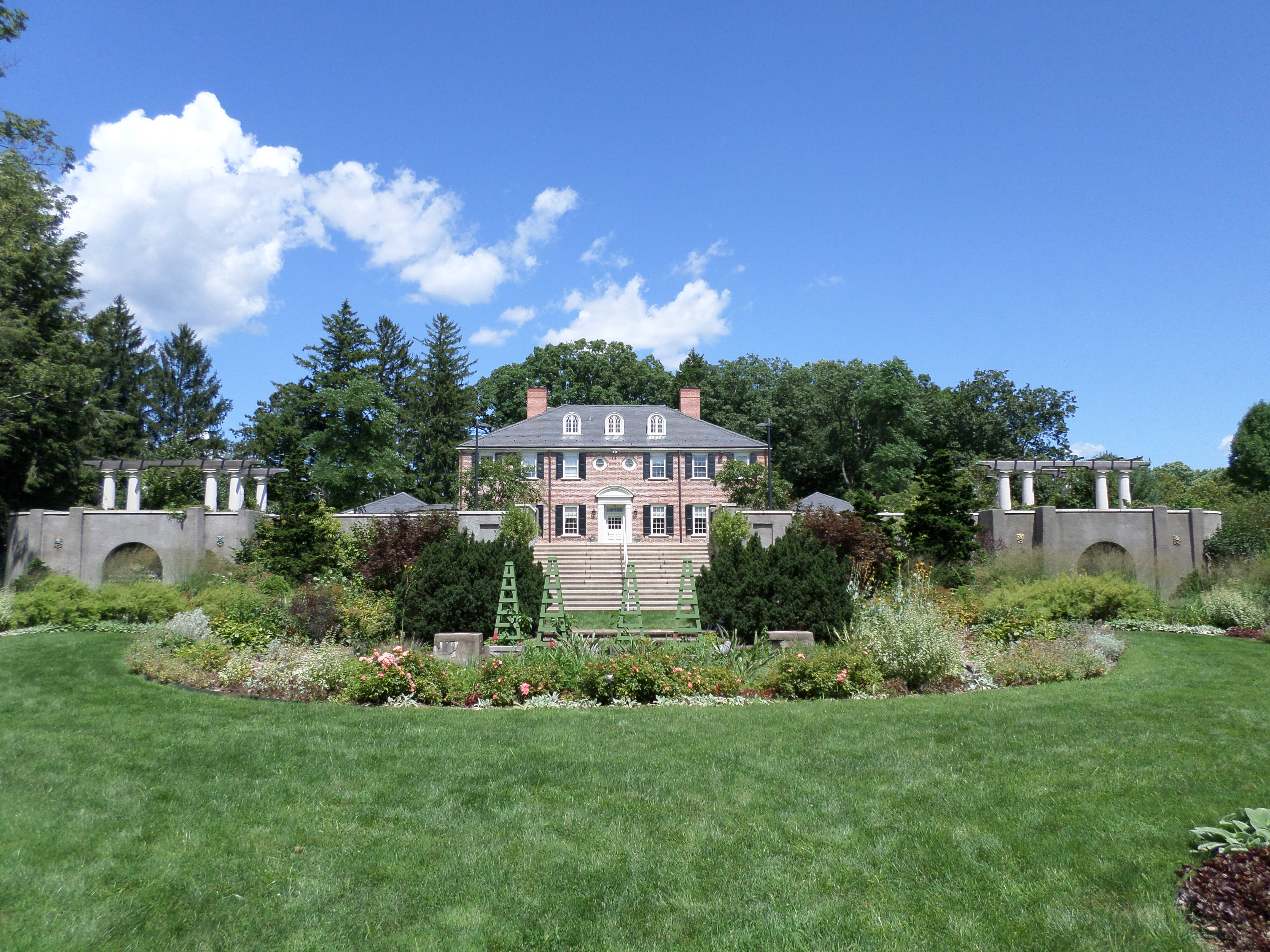 The Greenwoods (Blanchard Family House) in Short Hills, NJ